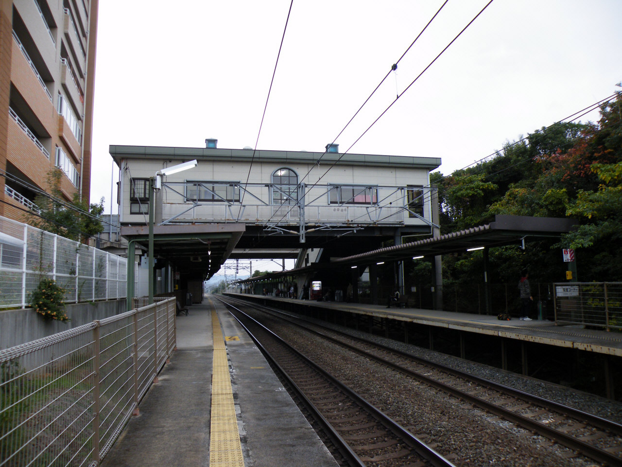 JR Kyushu Chidori Station enclosure